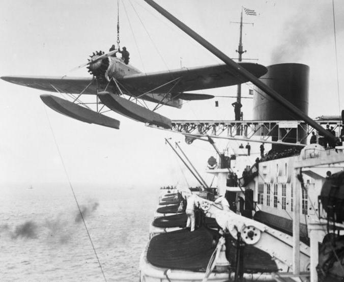 Heinkel He 58 D-1919 Bremen Atlantic being loaded onto the catapult on SS Europa.